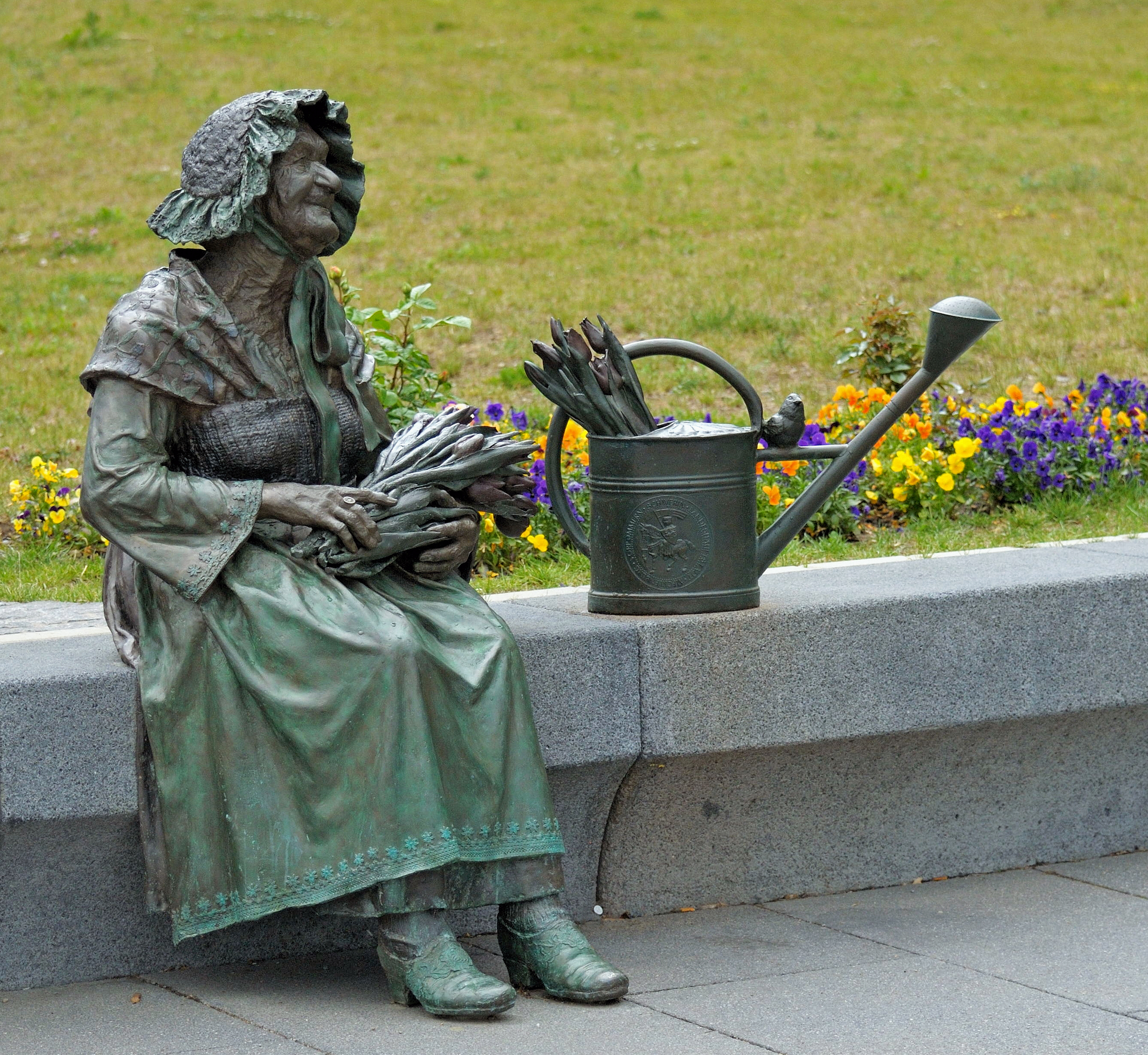 Monument Bertha Klingberg. Schwerin, Deutschland. Sculptor: Bernd Streiter